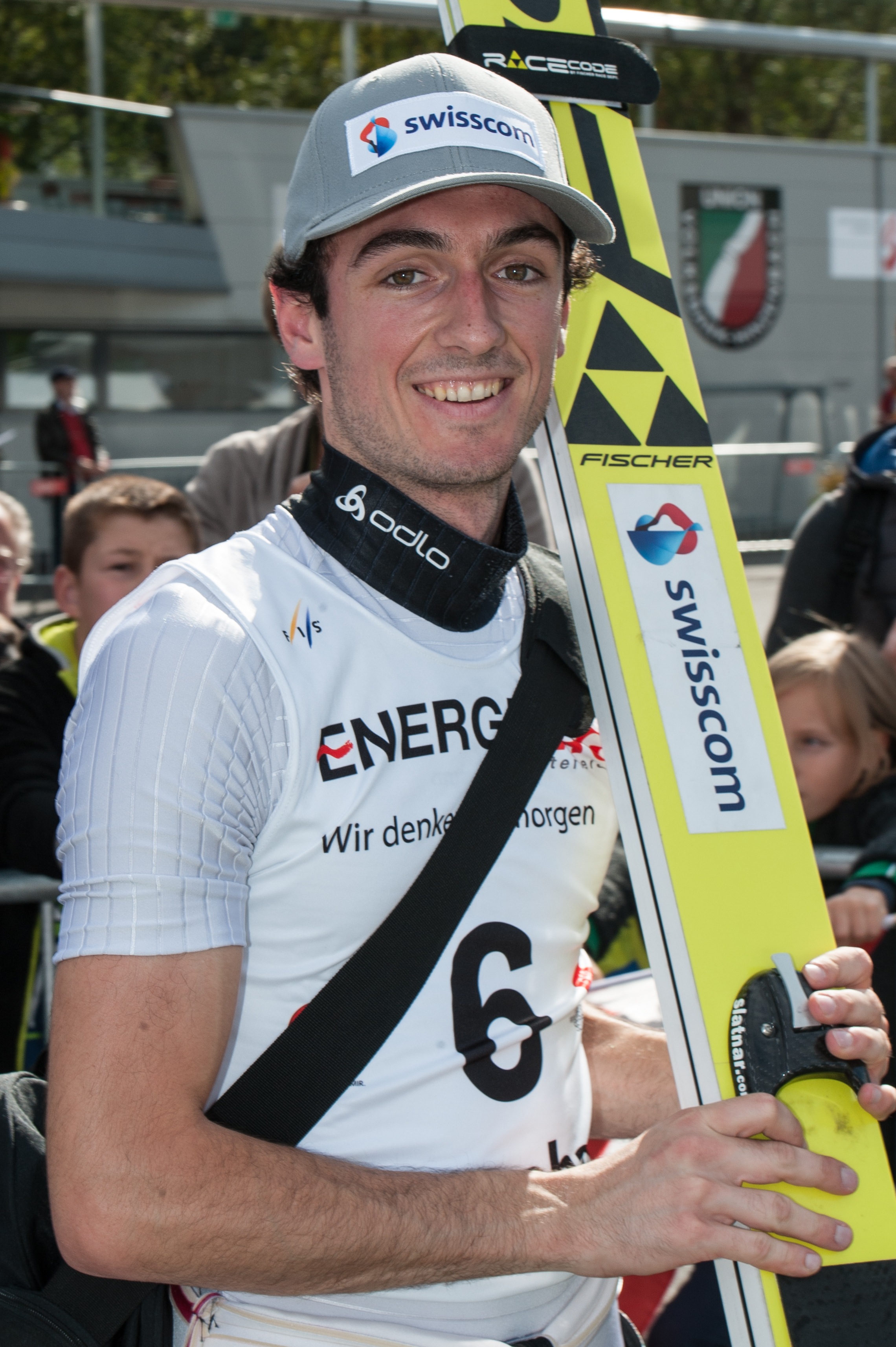 Fis Ski Jumping Summer Grand Prix in Hinzenbach, Upper Austria, 2015-09-27: Killian Peier